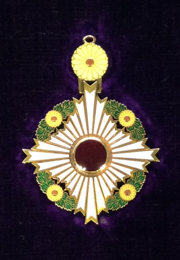 Collar of the Supreme Order of the Chrysanthemum